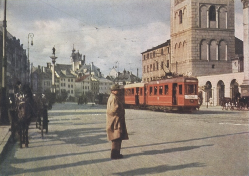 Warsaw Poland Krakowskie Przedmiescie 68, str. Agfacolor 1939